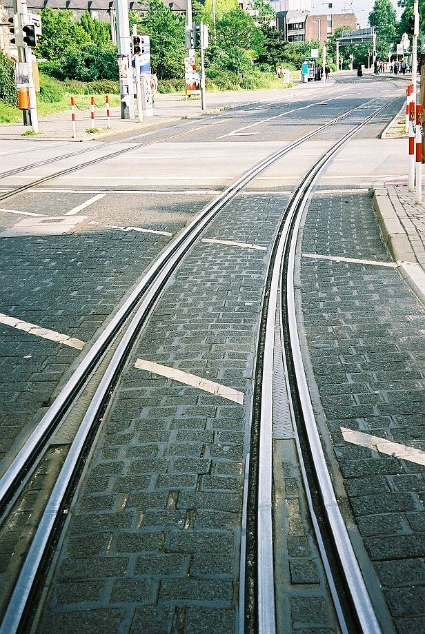 An example of a gauntlet track for the tram system in Mannheim, Germany, taken in May 2004